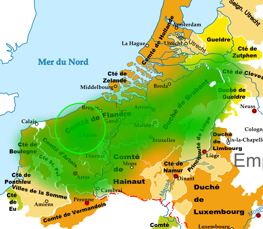 Flemish goose: region of origin and diffusion